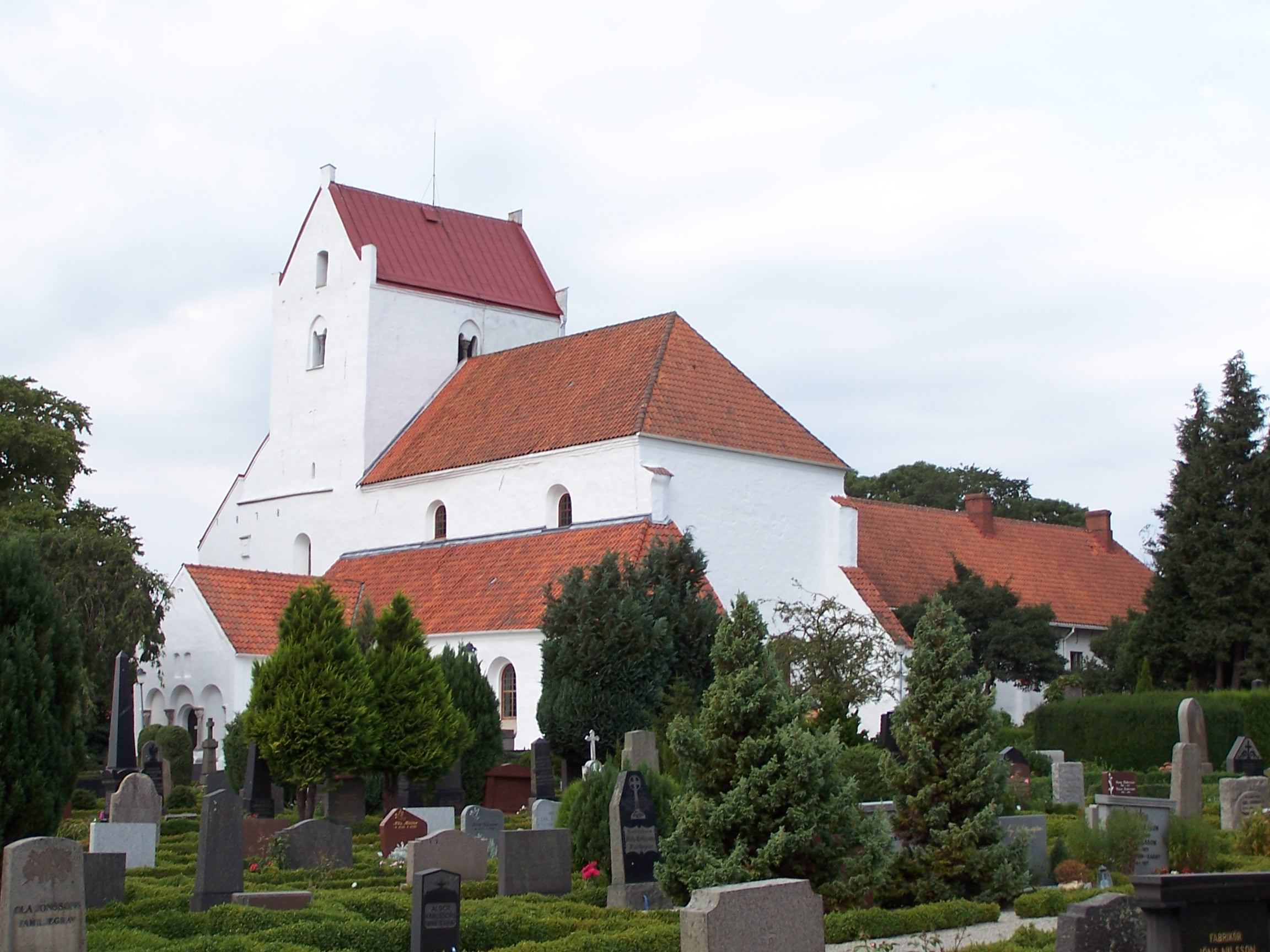 Dalby Heligkorskyrka - Exterior from southeast.